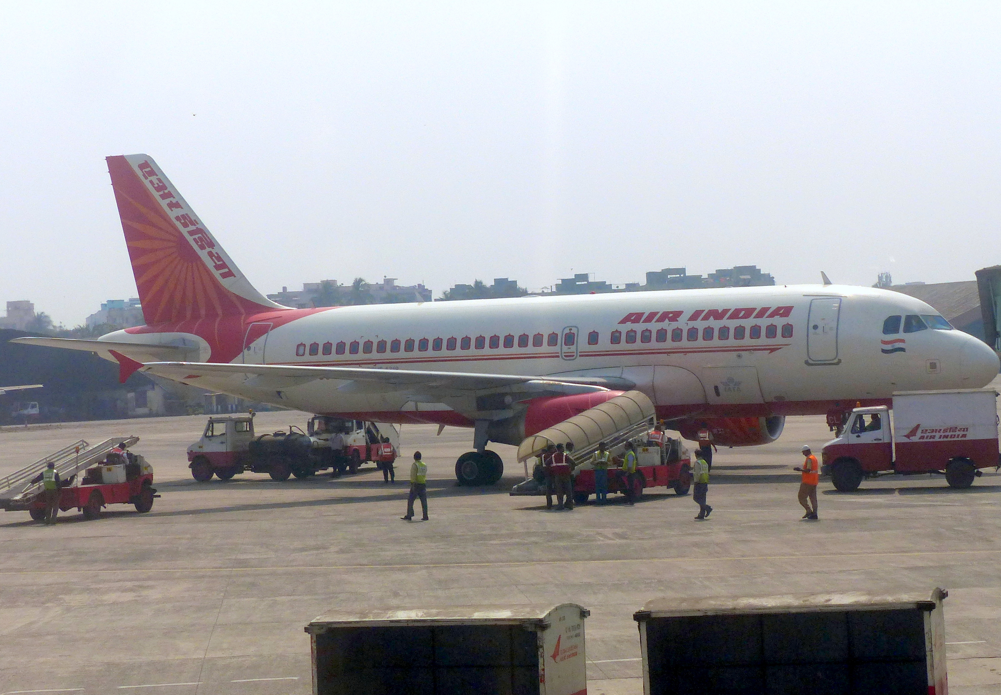 Air India on the Tarmac